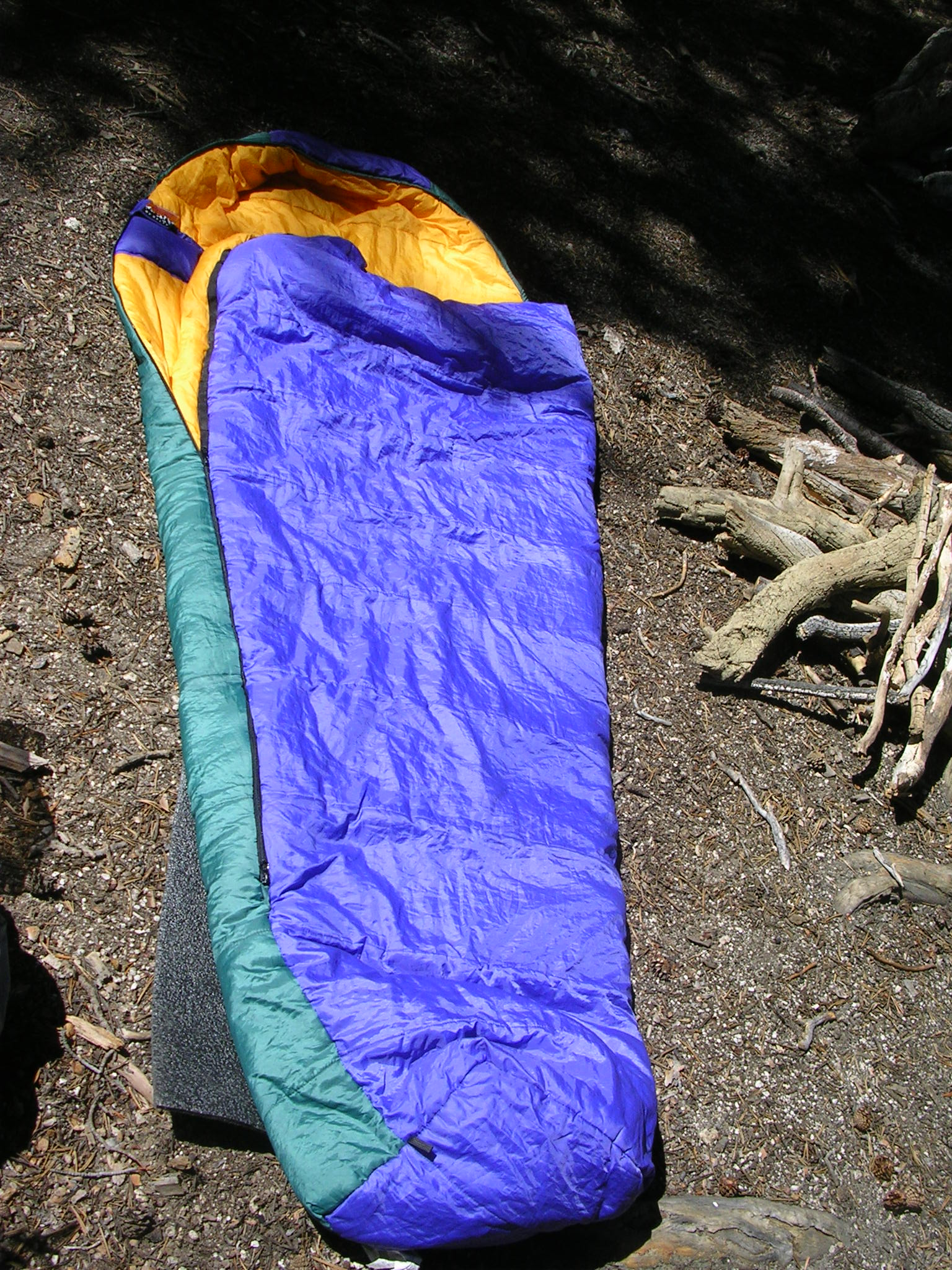 A sleeping bag. A corner of the black sleeping pad can be seen at lower right.